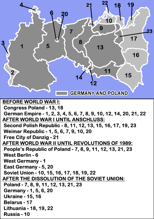 Anachronical map pf Germany and Poland border changes during the 20th century.